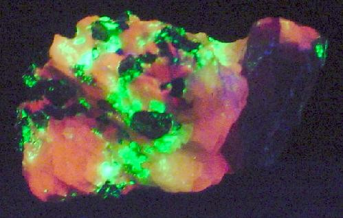 Zincite Locality: Sterling Hill, Ogdensburg, Franklin Mining District, Sussex County, New Jersey, USA (Locality at ) Size: 3.1 x 1.9 x 1.5 cm. A SUPERB, GEMMY, 1.6 cm, cherry-red zincite crystal aesthetically set on matrix of calcite, willemite and franklinite from Sterling Hill. The zincite crystal is nicely terminated and has a bit of embedded calcite. CLASSIC and VERY DESIRABLE material from this famed locality. The calcite and willemite are beautifully fluorescent, as you would expect. Ex. George Ellling Collection.